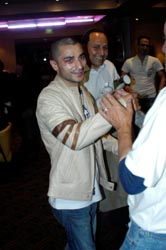 Vic at the crown casino